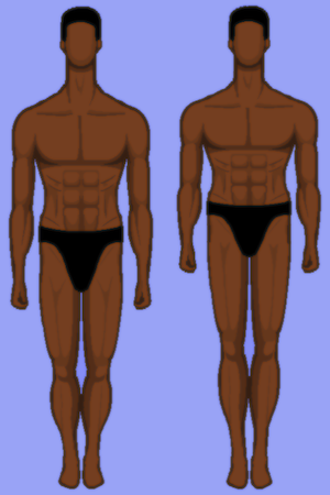 This drawing of two male figures is a remake of the drawing of the leg-to-body ratio (LBR) extremes used in the experiment by Swami et al. (2006) to find out what LBR is considered the most attractive for men and women. The male figure with the lowest LBR and shortest legs who is depicted on the viewer's left had the highest average attractiveness ratings whereas the male figure with the highest LBR and longest legs who is depicted on the viewer's right had the lowest average attractiveness ratings from both the British men and women who rated the images for the experiment. The citation for the paper is below. Swami, V et al. (2006). The leg-to-body ratio as a human aesthetic criterion. Body Image, 3(4), 317-323.